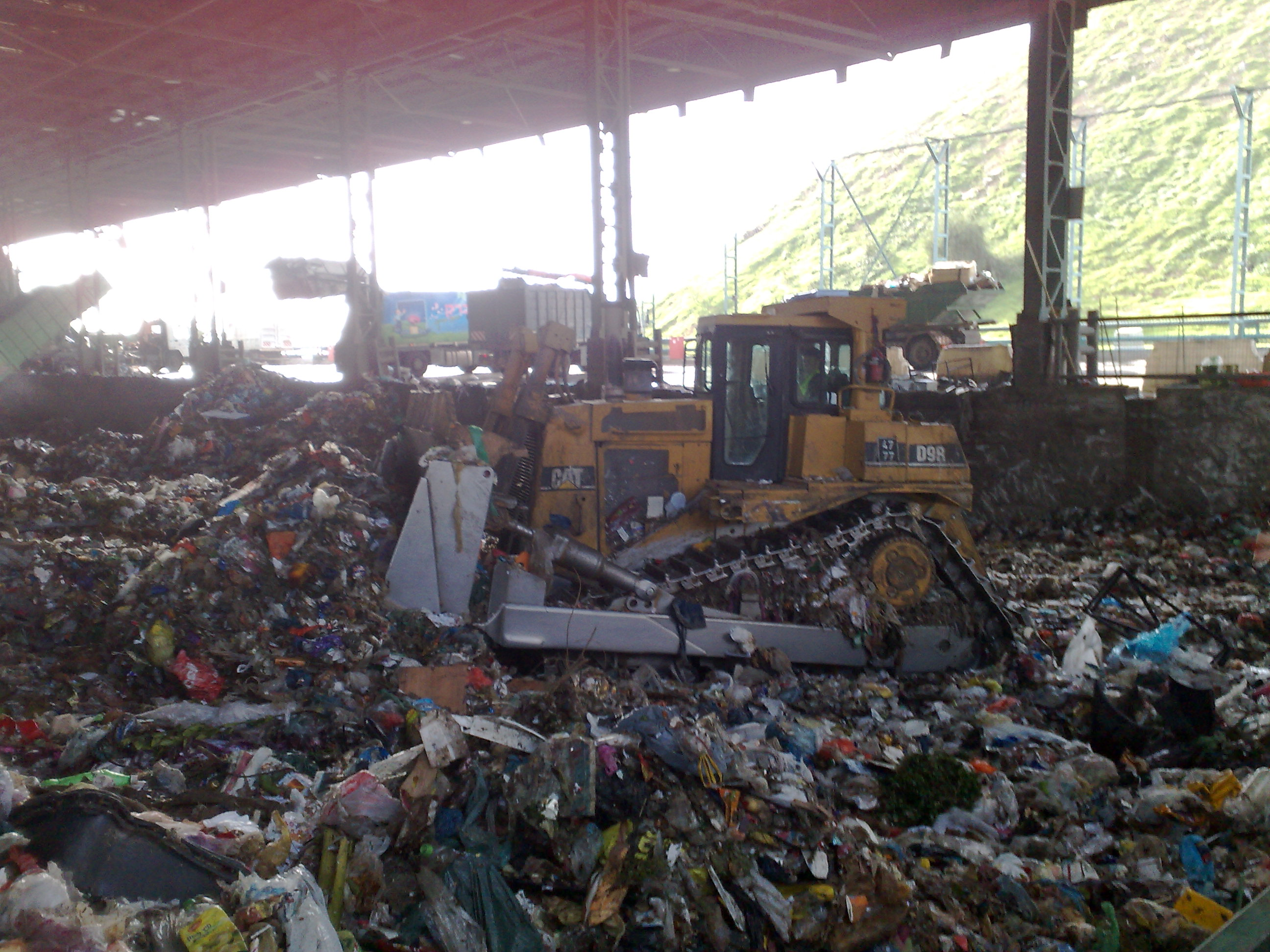 Trash facility in Hiria